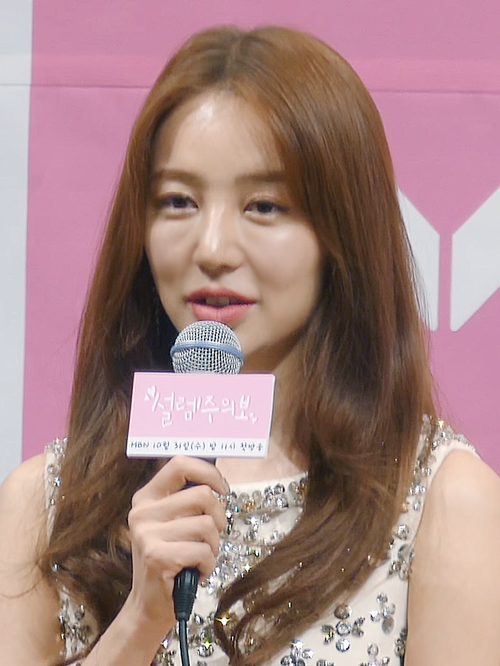 Yoon Eun-hye at Sep 2018